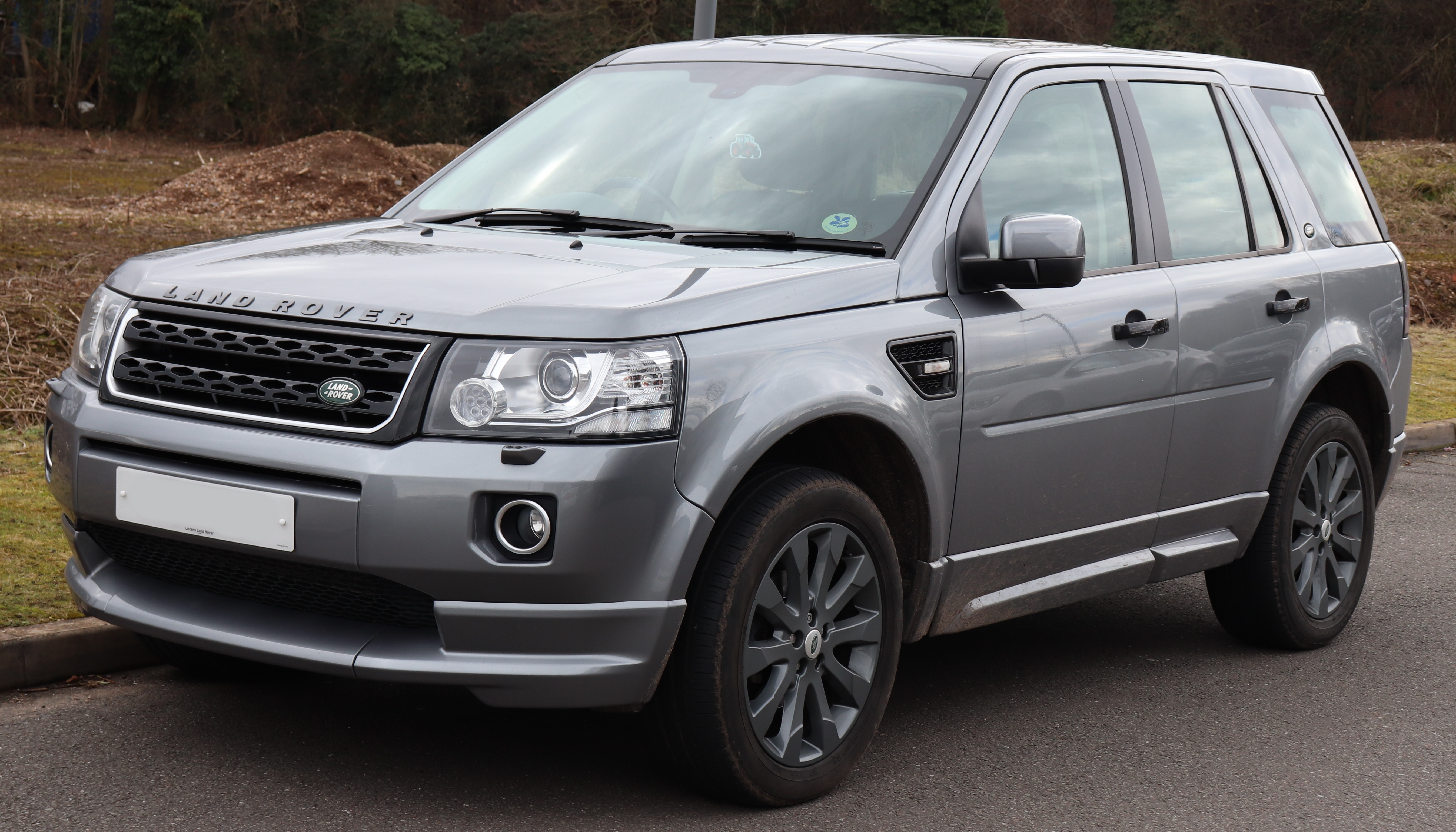 2013 Land Rover Freelander Dynamic SD4 Automatic 2.2 Front Taken in Leamington Spa